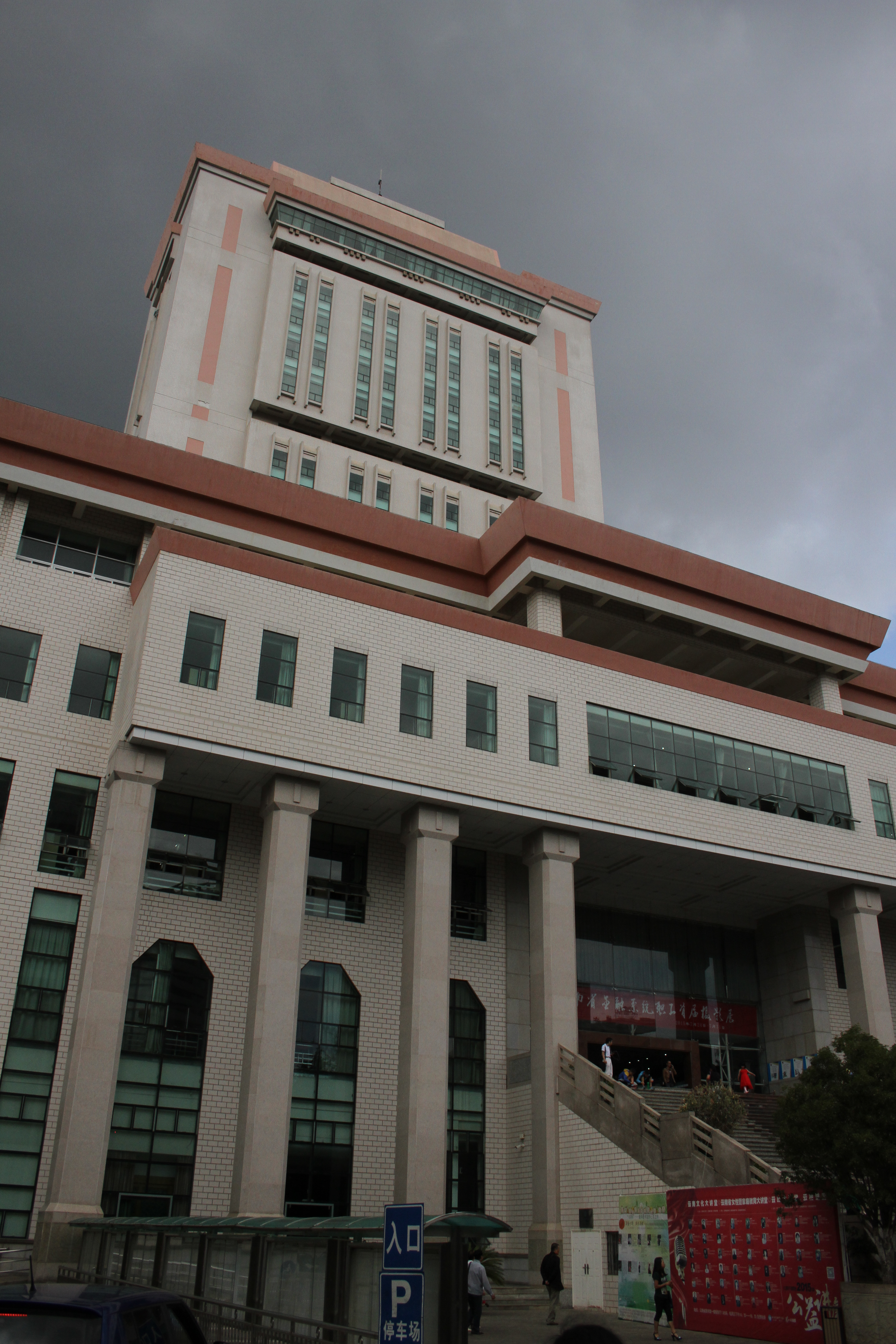 Yunnan Provincial Library Front Door